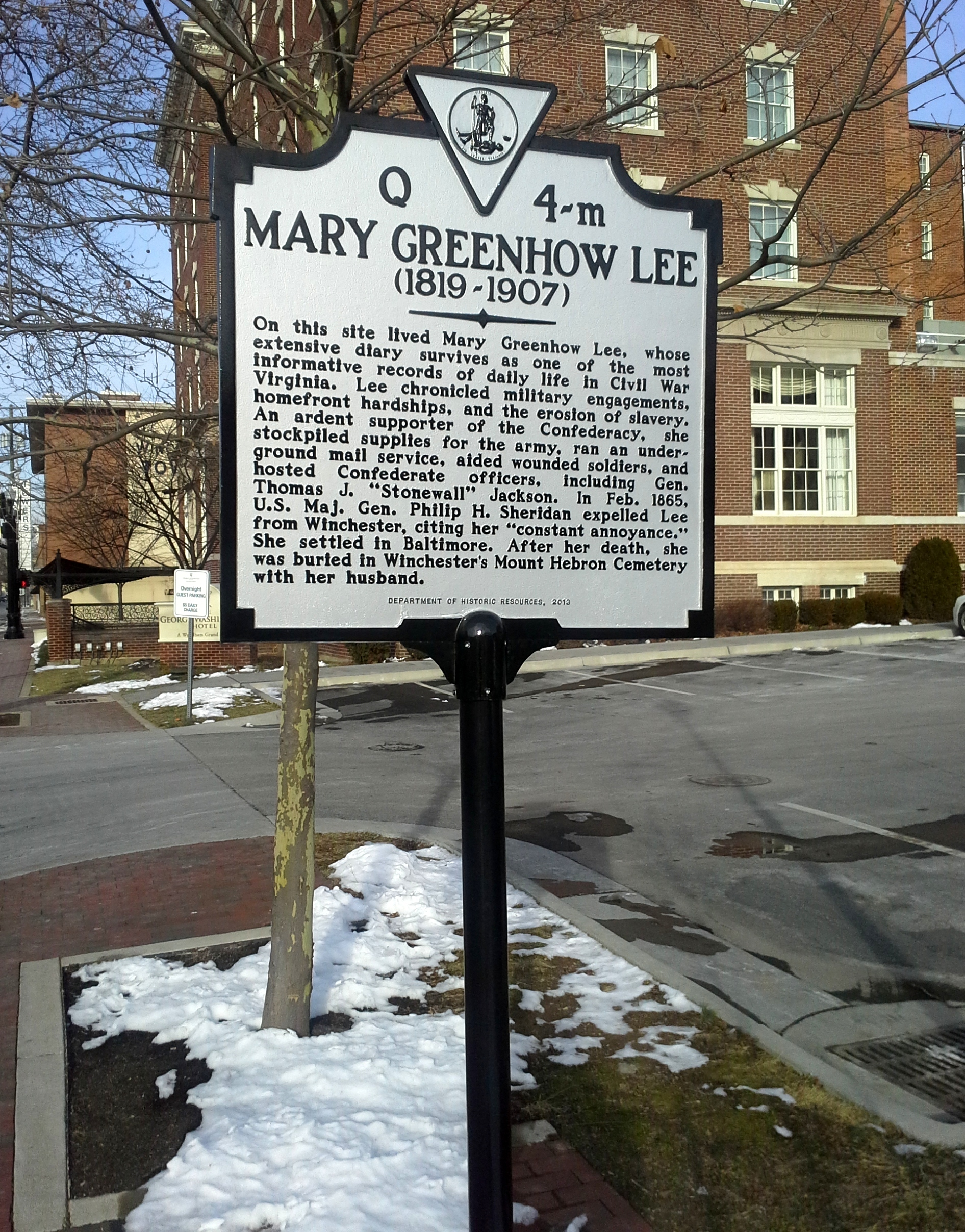 A historical marker on Cameron Street in Winchester, Virignia, noting the former site of Mary Greenhow Lee's house.